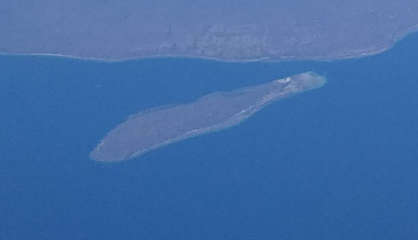 Menjangan Island, part of Bali, part of Java (including Ijen?), and another small island, seen from a plane.